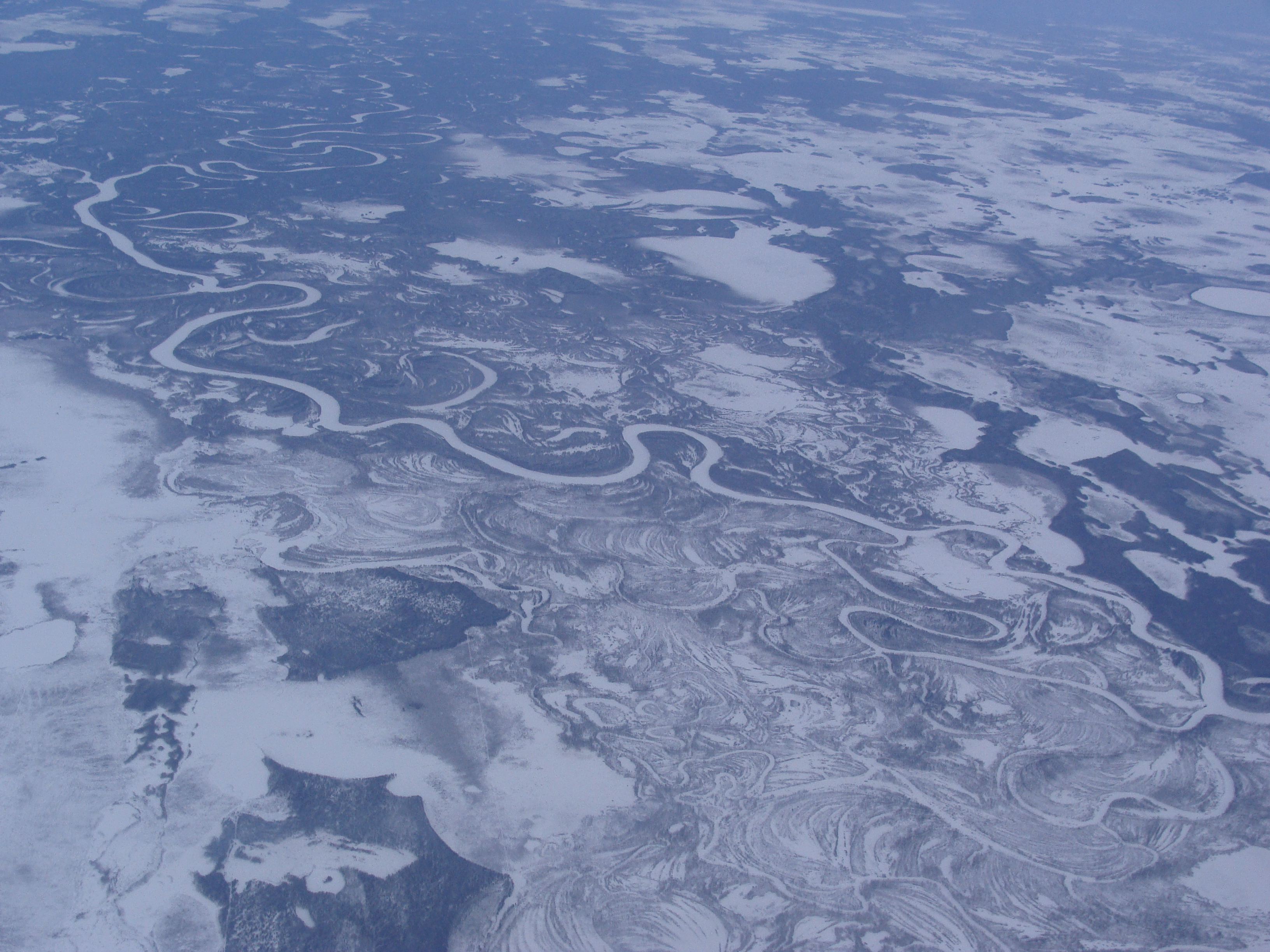 Tym River from 5.000 meters